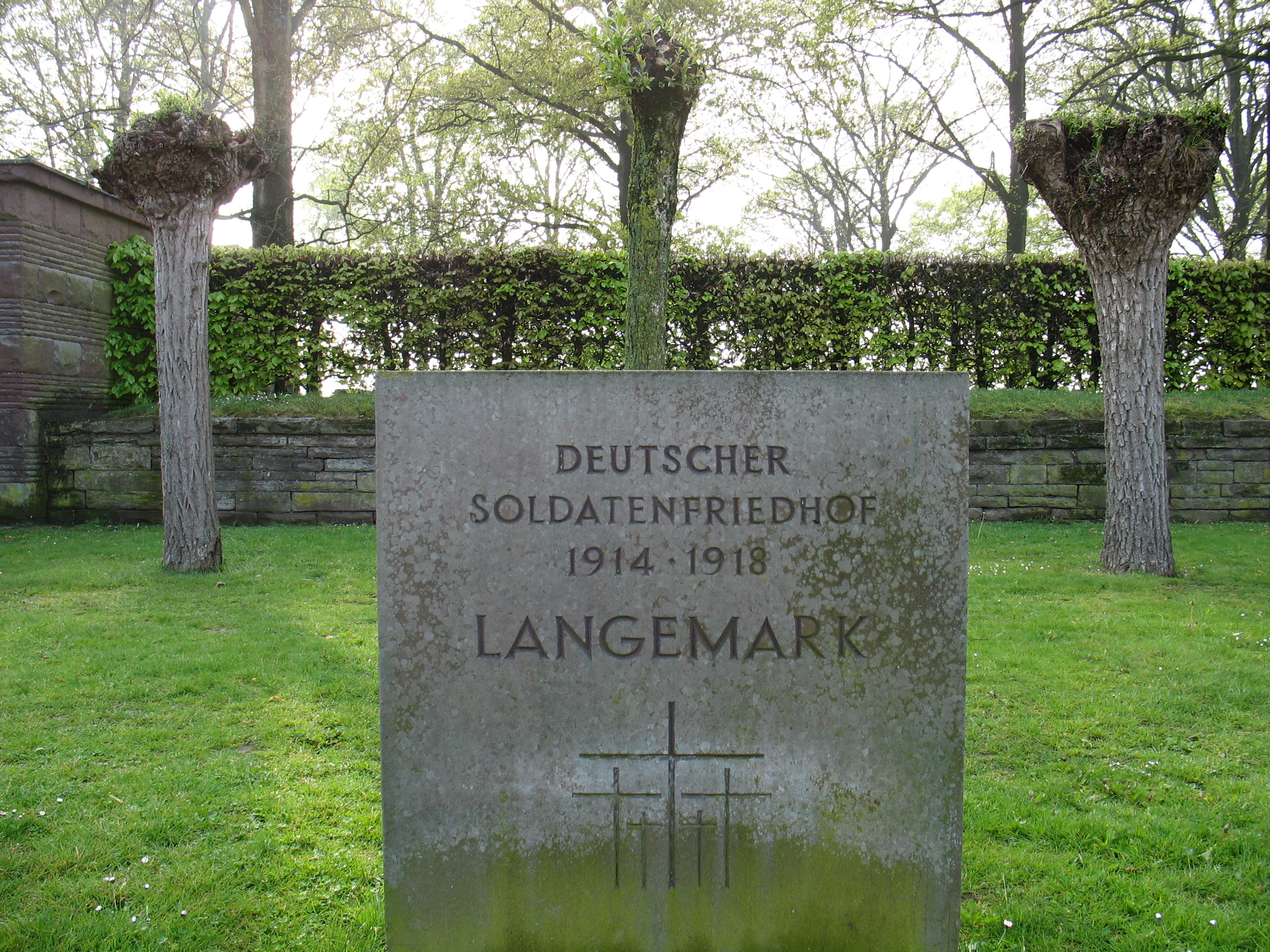 Langemark German WW1 war cemetary - marker stone outside entrance